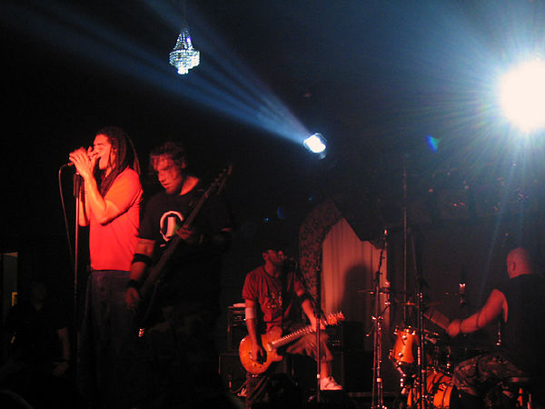 Nonpoint at the Riverside Ballroom in Haeverscorners, Wisconsin